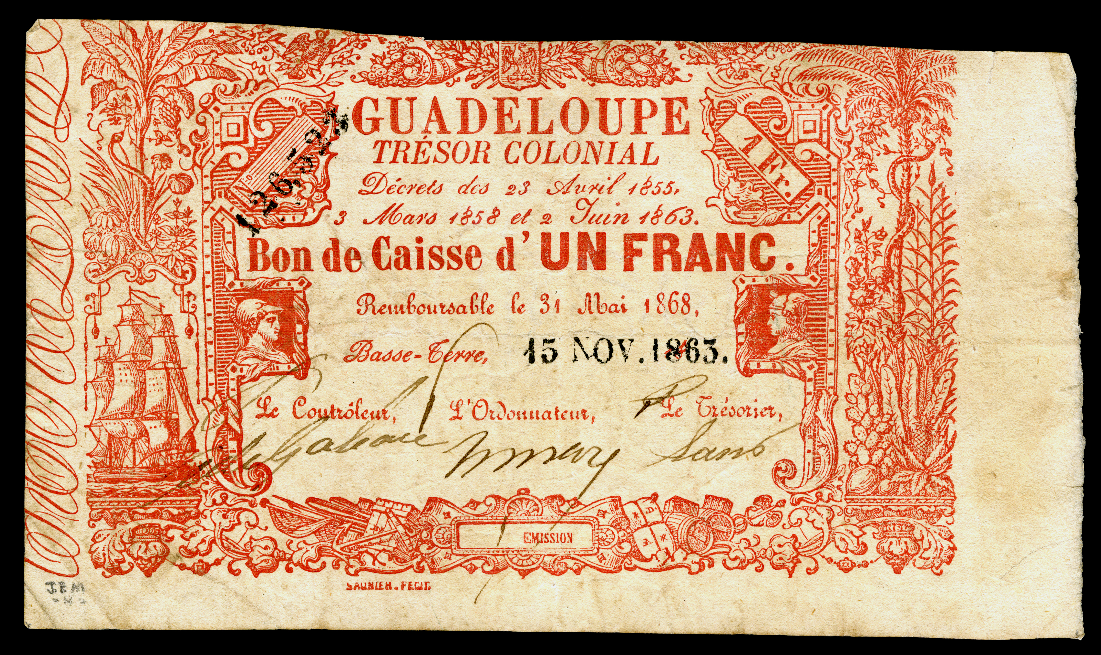 Colonial Guadeloupe, 1 franc, under law dated 2 June 1863.